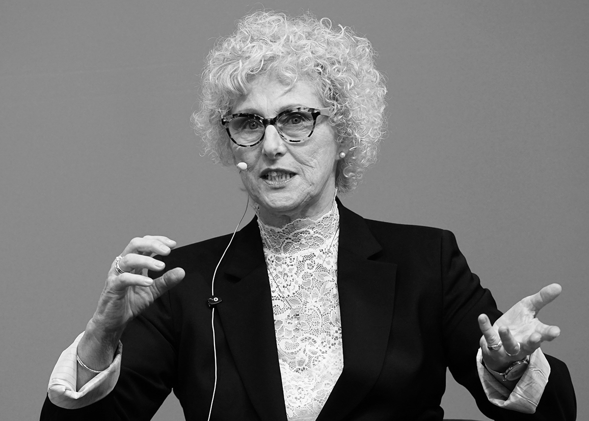 Vibeke Marx - Danish writer at the Copenhagen Book Fair "BogForum 2016", Copenhagen, Denmark